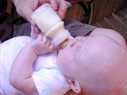 A baby drinking from a bottle.